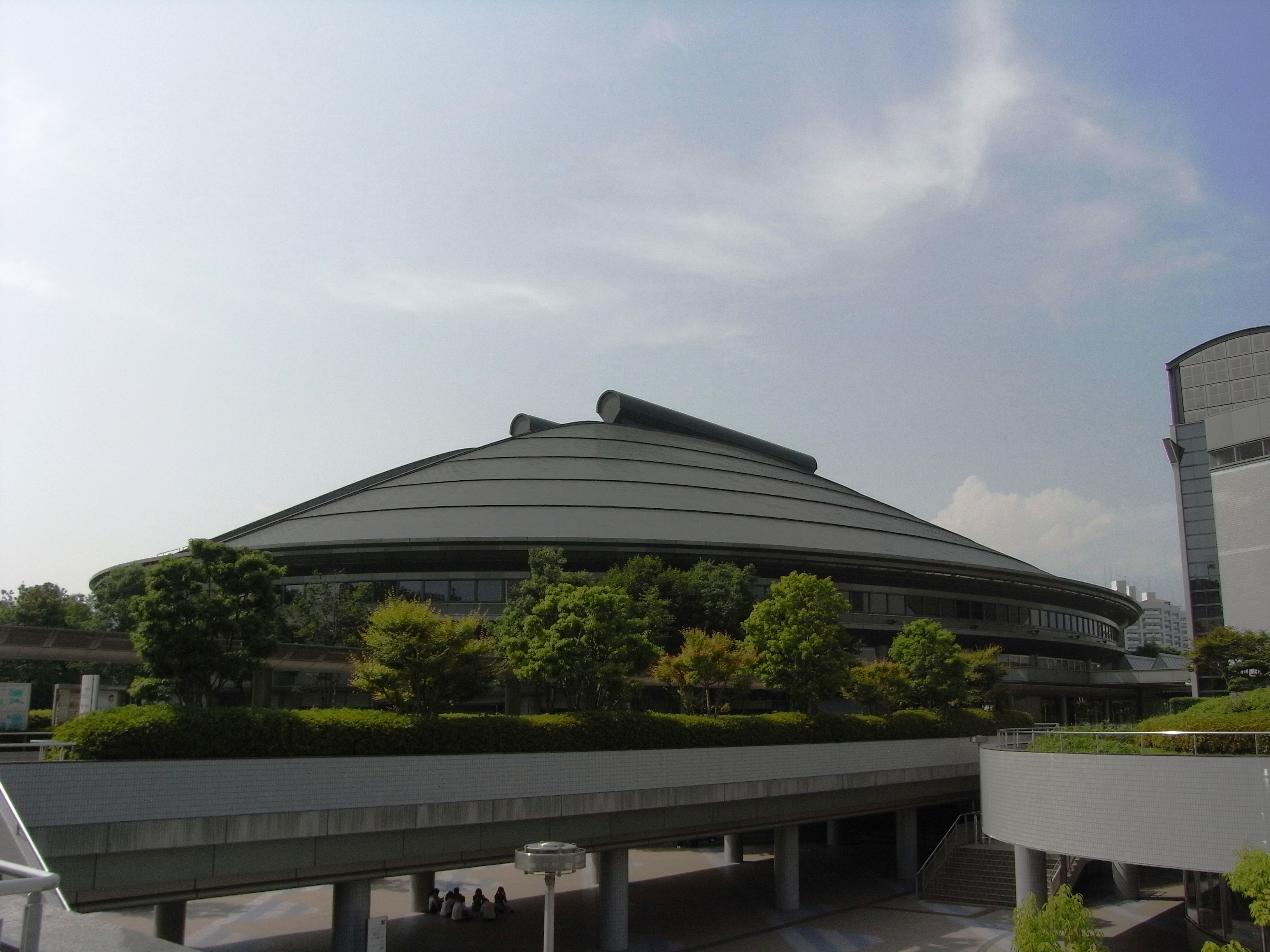 Hiroshima Prefectural Sports Center(広島県立総合体育館、Hiroshima Green Arena